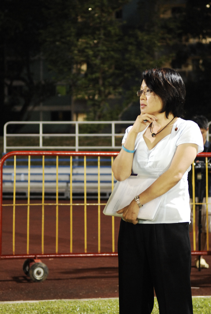 Sylvia Lim at a Workers' Party of Singapore rally at Bedok Stadium for the Singaporean general election, 2011.